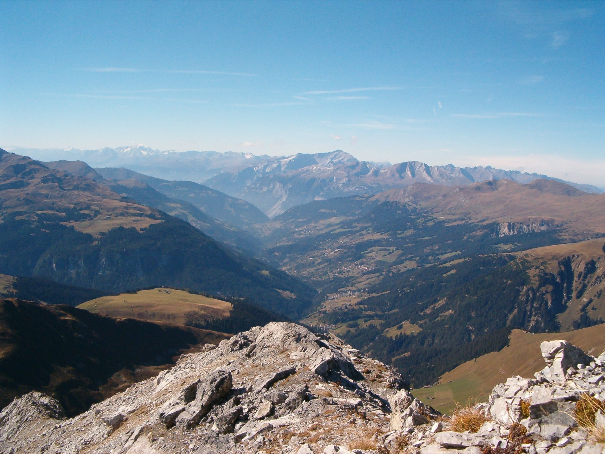 Schanfigg, seen from Chuepfenflue, Langwies/Switzerland